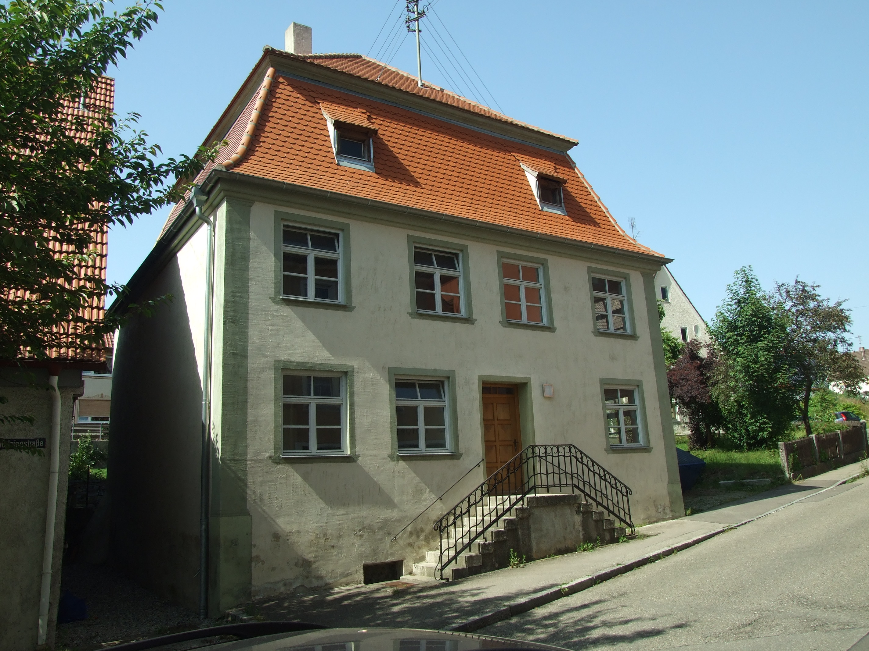 Kolpingstraße 3 Former Benefiziatenhaus.